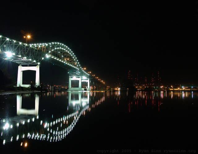 Ryan Sinn, duluth, minnesota, blatnik bridge, bridge, night, twin ports, superior, superior wisconsin, radio tower